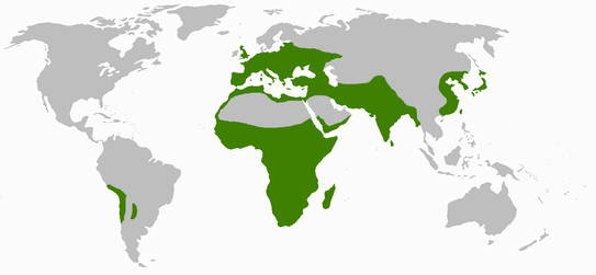 Map showing the approximate distribution of species of the subfamily Scilloideae (Asparagaceae), based on as of 17 April 2013